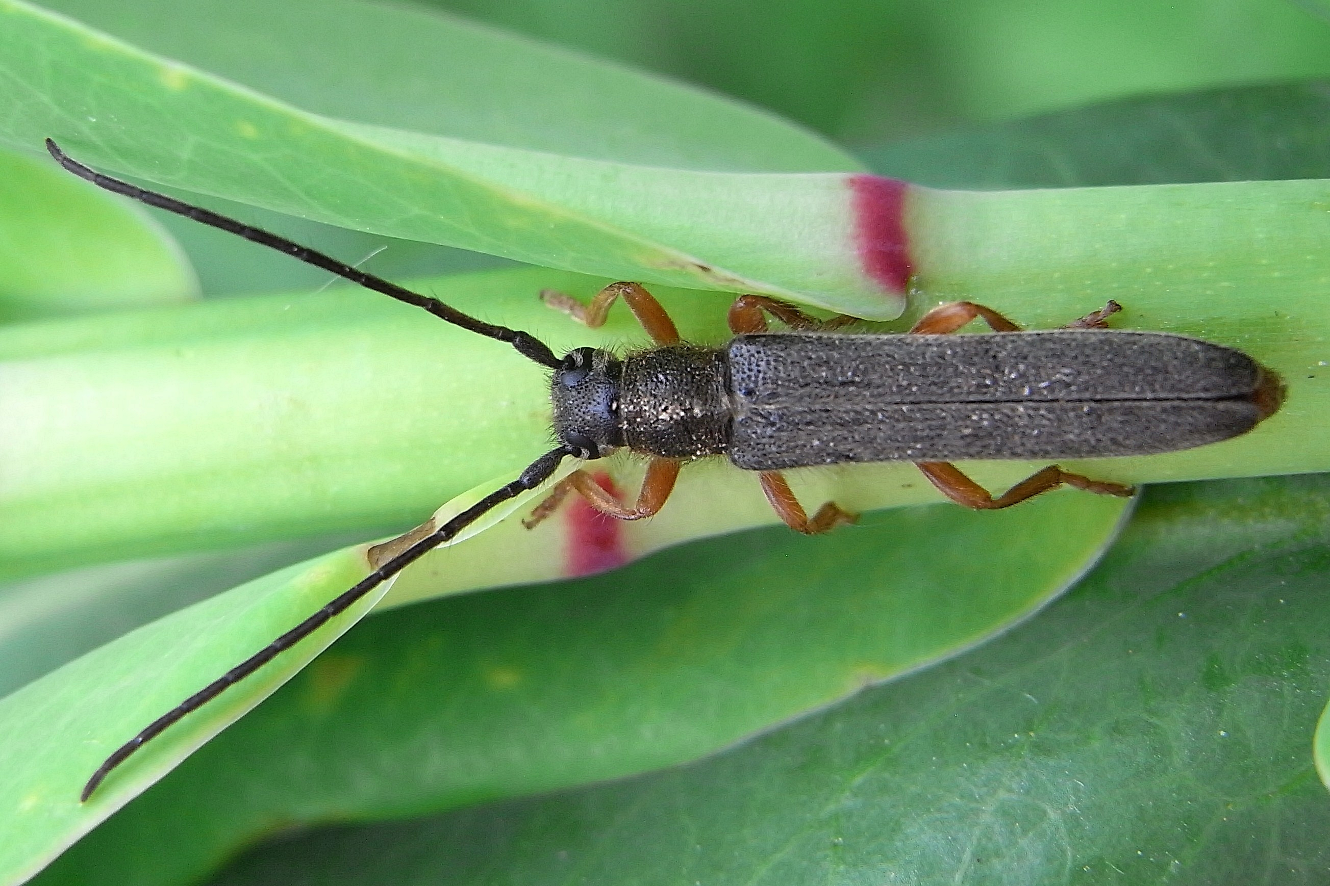 Oberea euphorbiae from Hungary at Davod (West of Mohacs) at 2010-05-11Ricoh R8